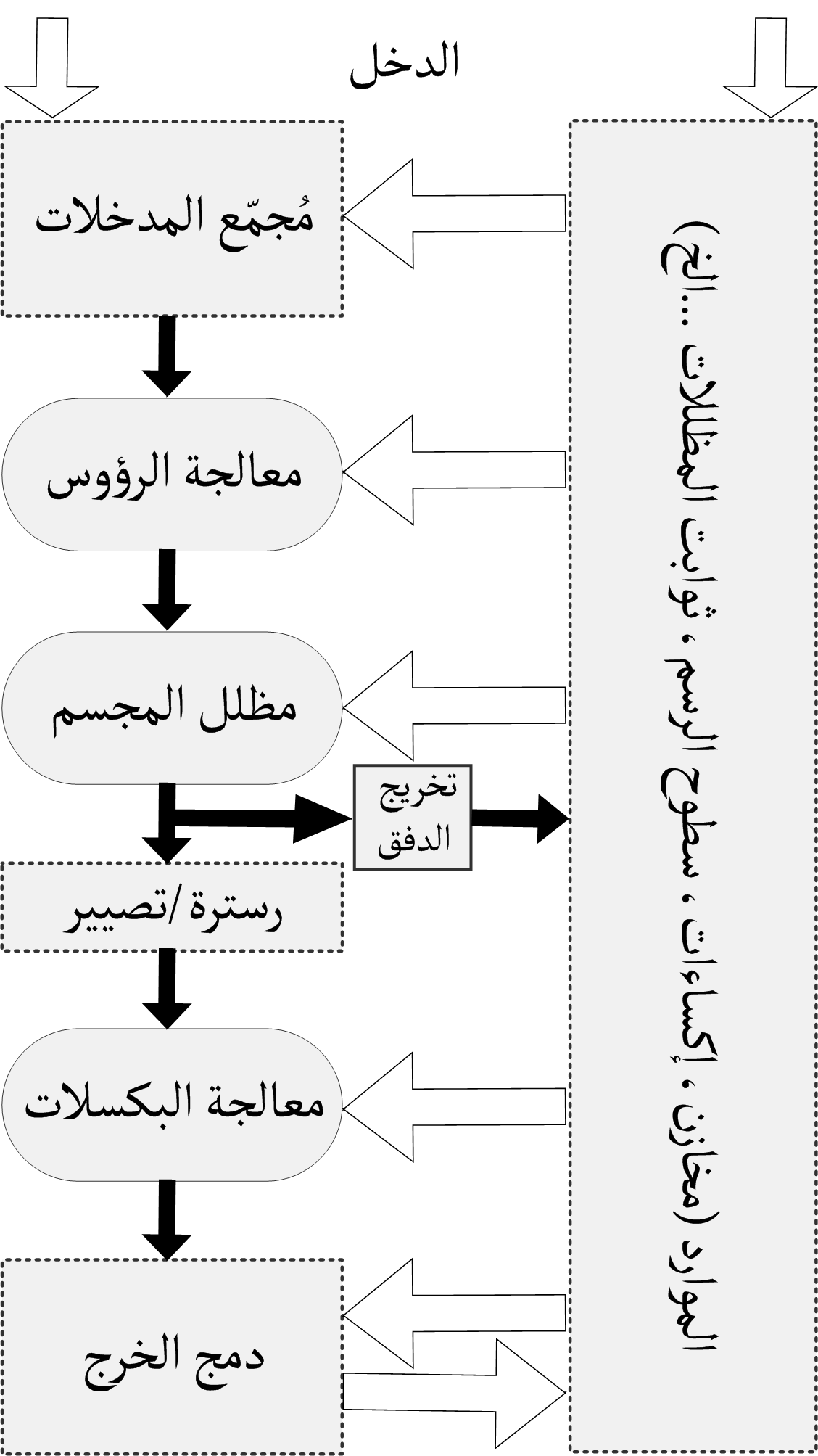 Direct3D Pipeline. Arabic version. You can also get the Spanish version